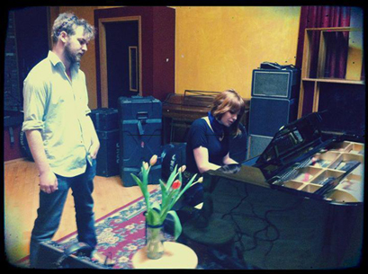 Recording at London Bridge Studios